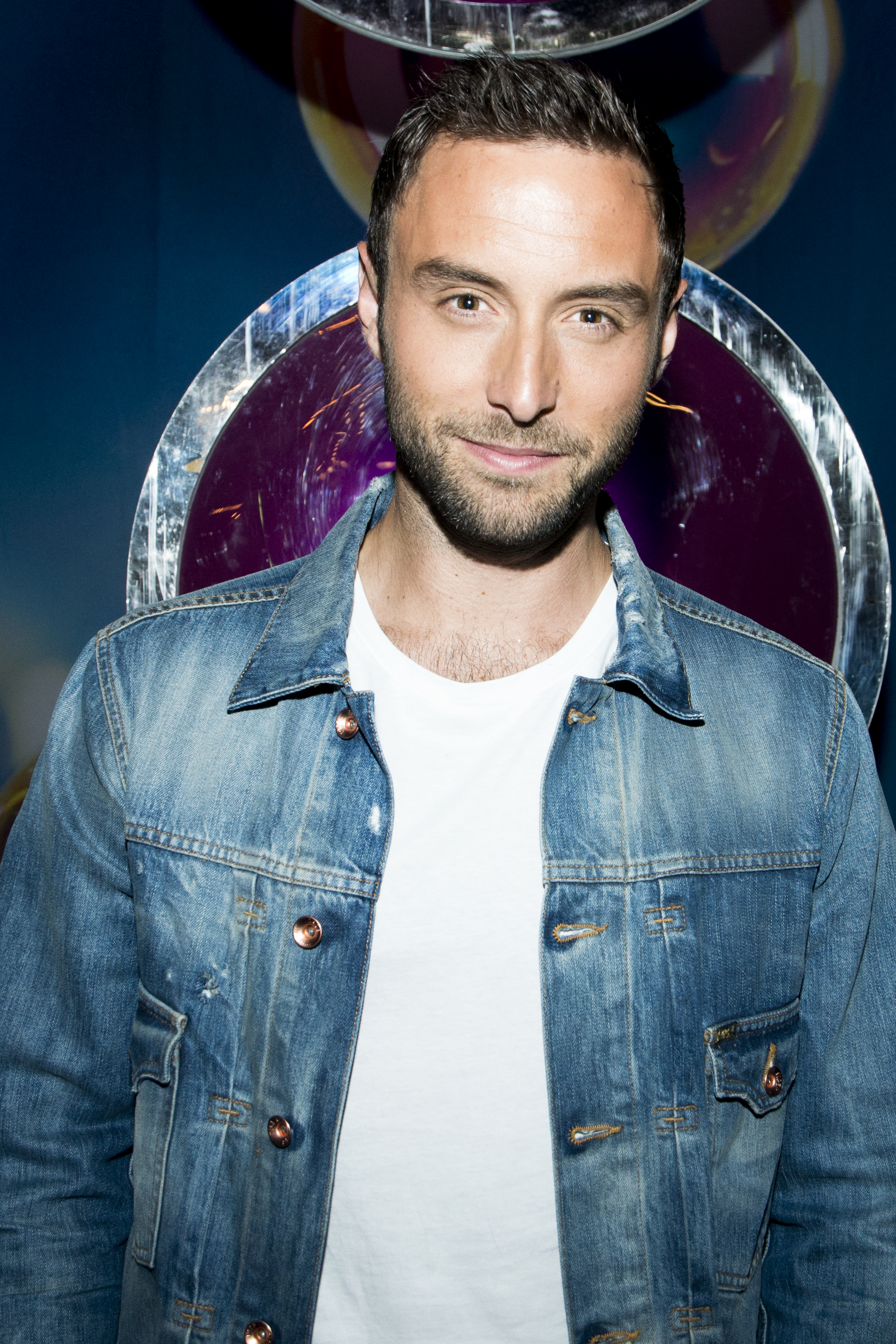 Måns Zelmerlöw at tv-show Sommarkrysset at Gröna Lund in Stockholm (Sweden).